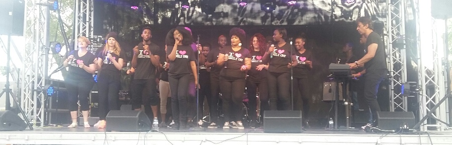 A Family One concert photographed in Montreal, Quebec, Canada.